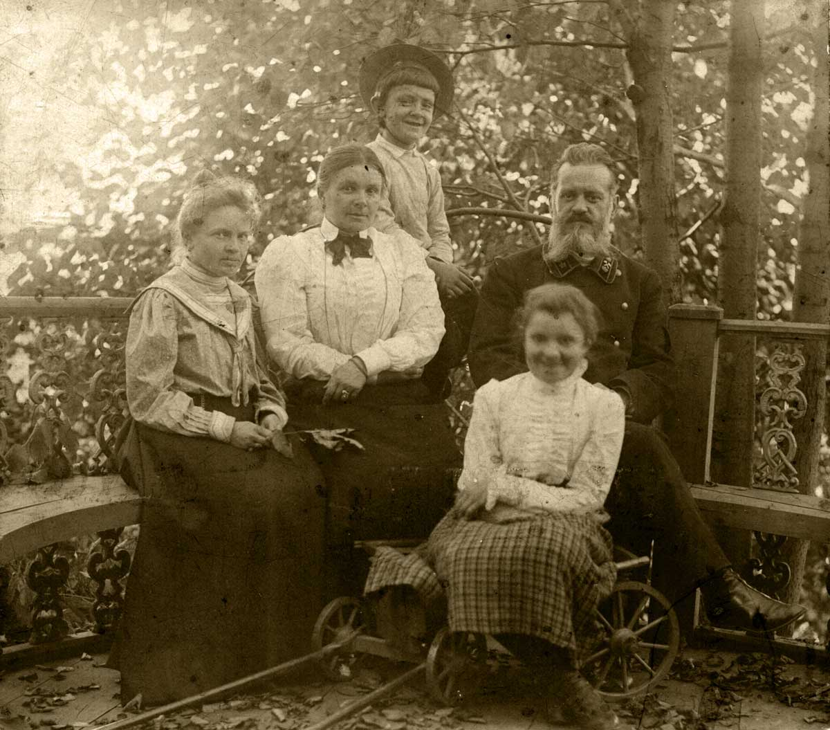 Strolman family